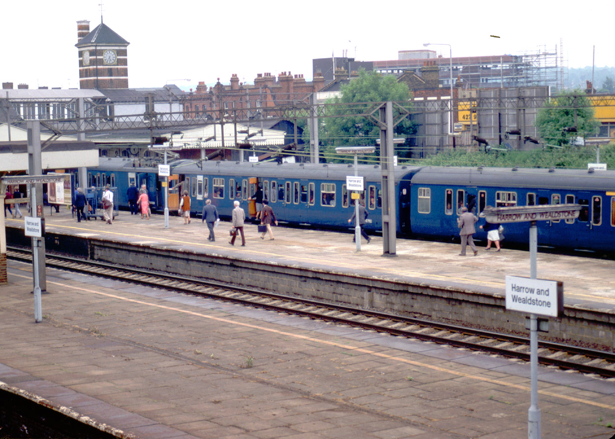 Class 310 train in British Railways plain blue calls at Harrow and Wealdstone station. Photographed by SP Smiler